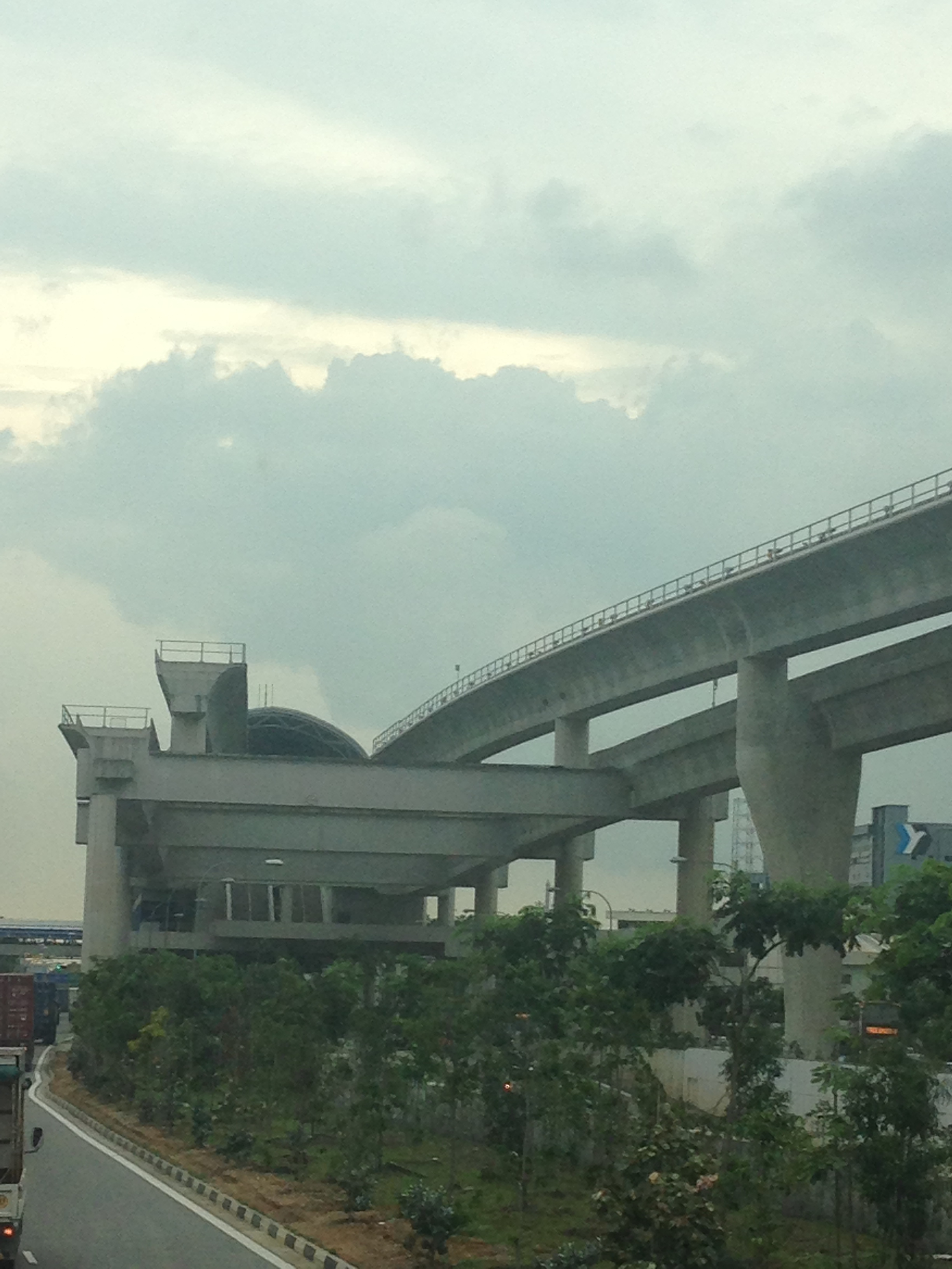 Tracks east of Gul Circle MRT Circle